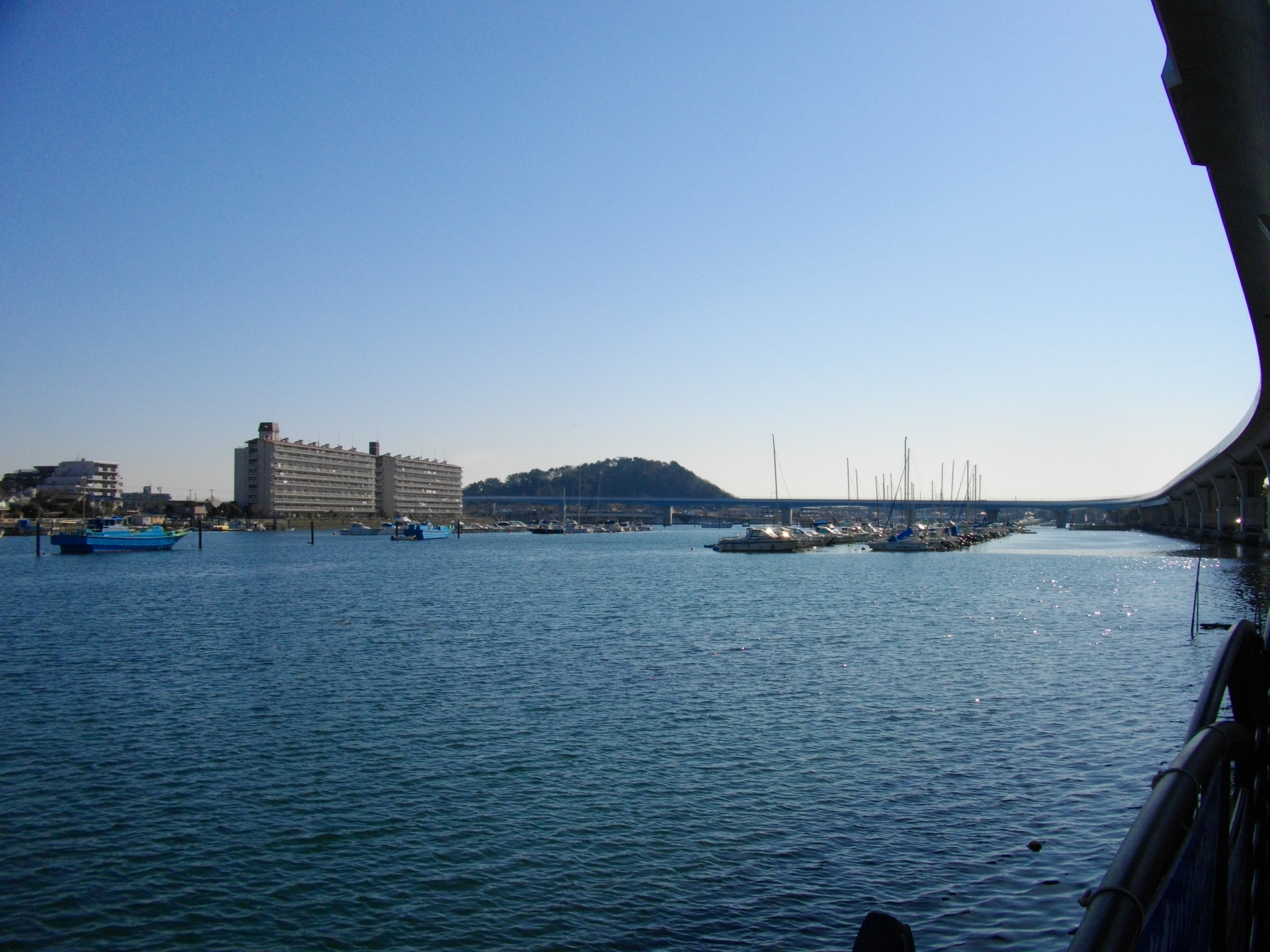 Hirakata Bay